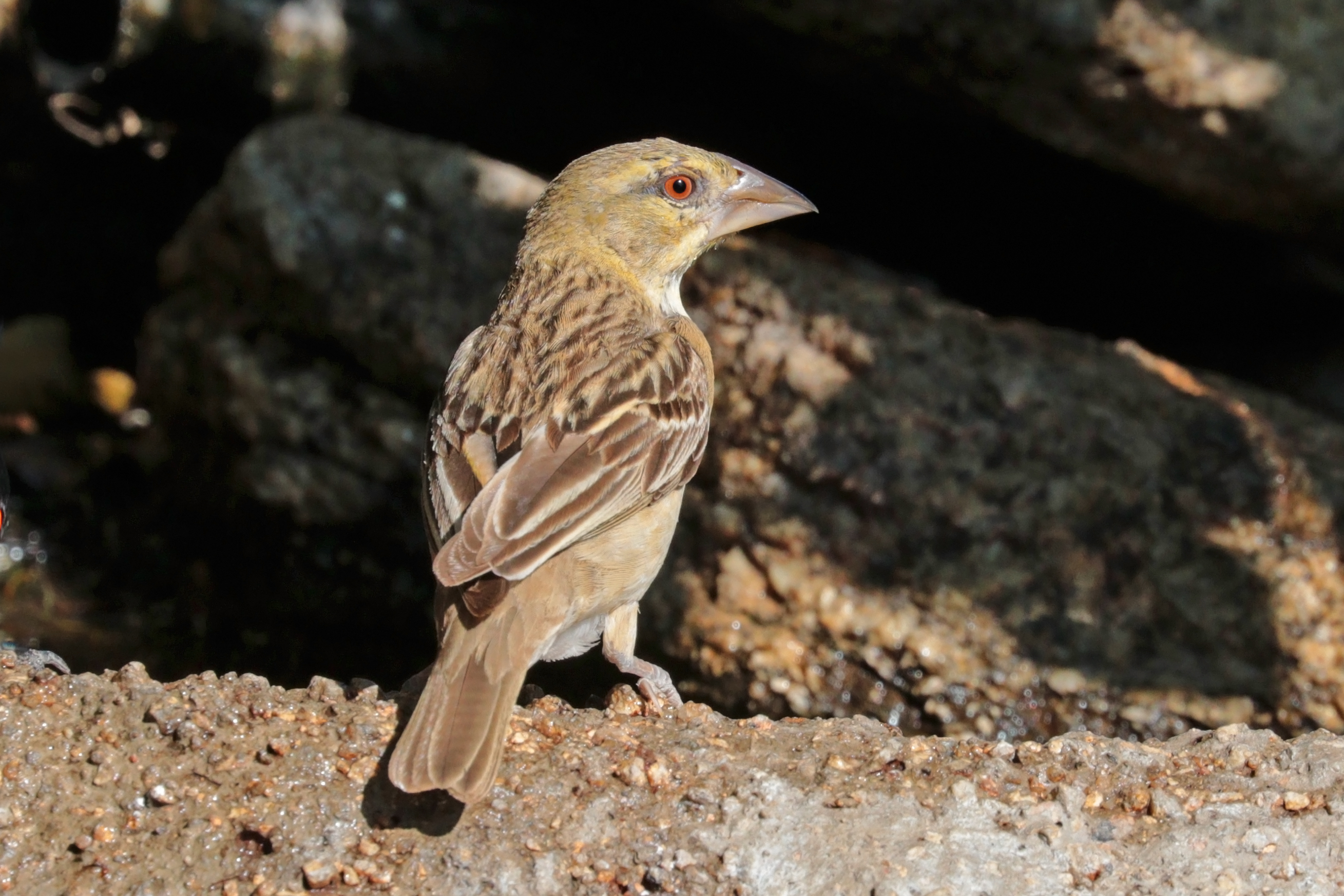 Southern masked weaver (Ploceus velatus) female, Erongo, Namibia